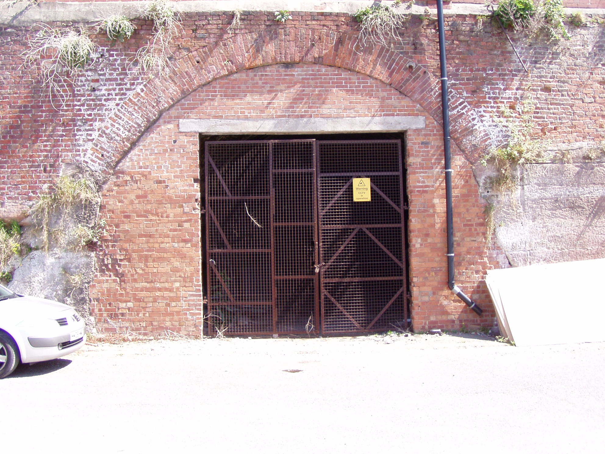 Exit of the Wapping Tunnel, Liverpool at the Wapping end. Kings Dock Road.